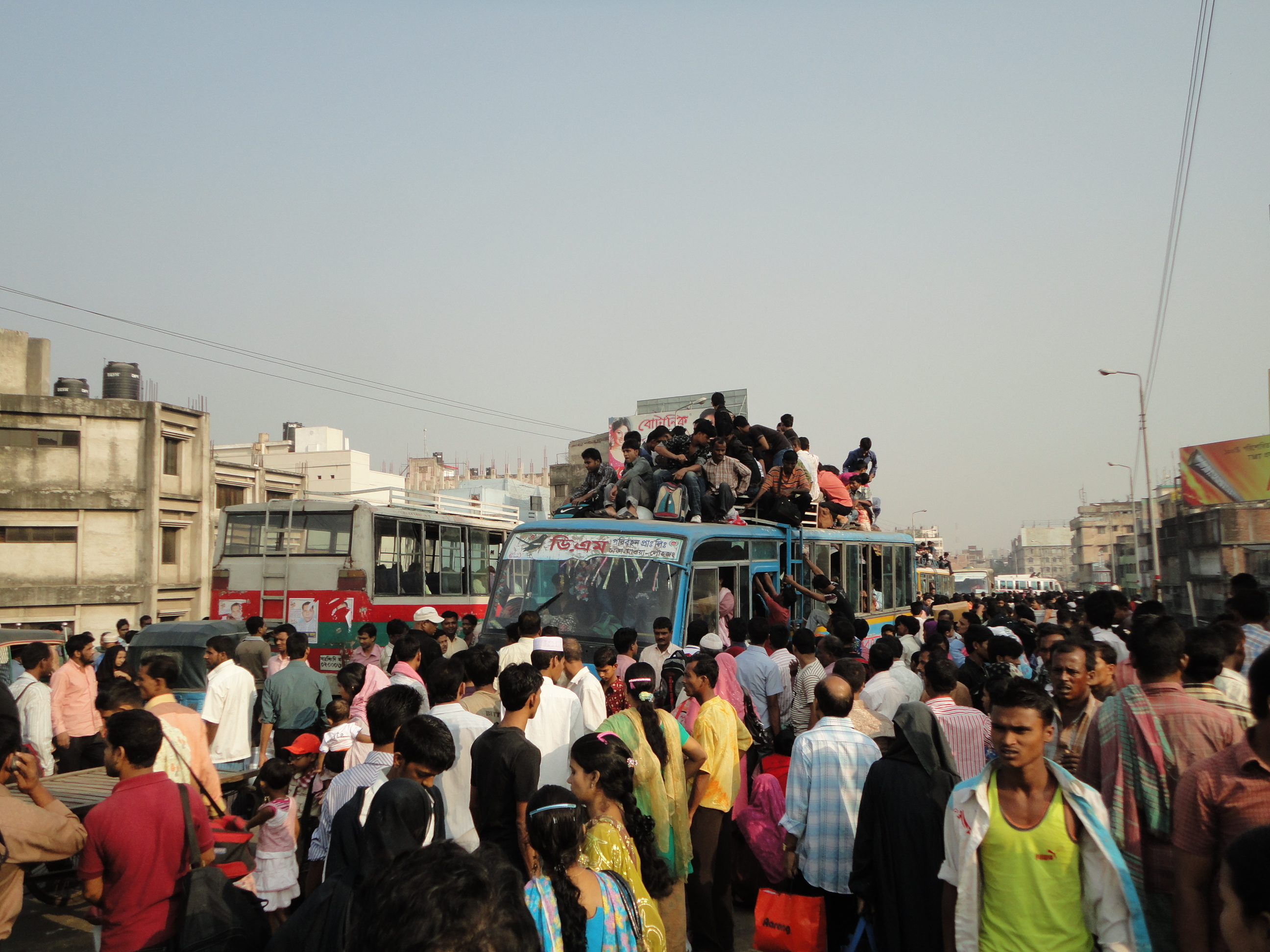 People leaving Dhaka on Eid vacation.